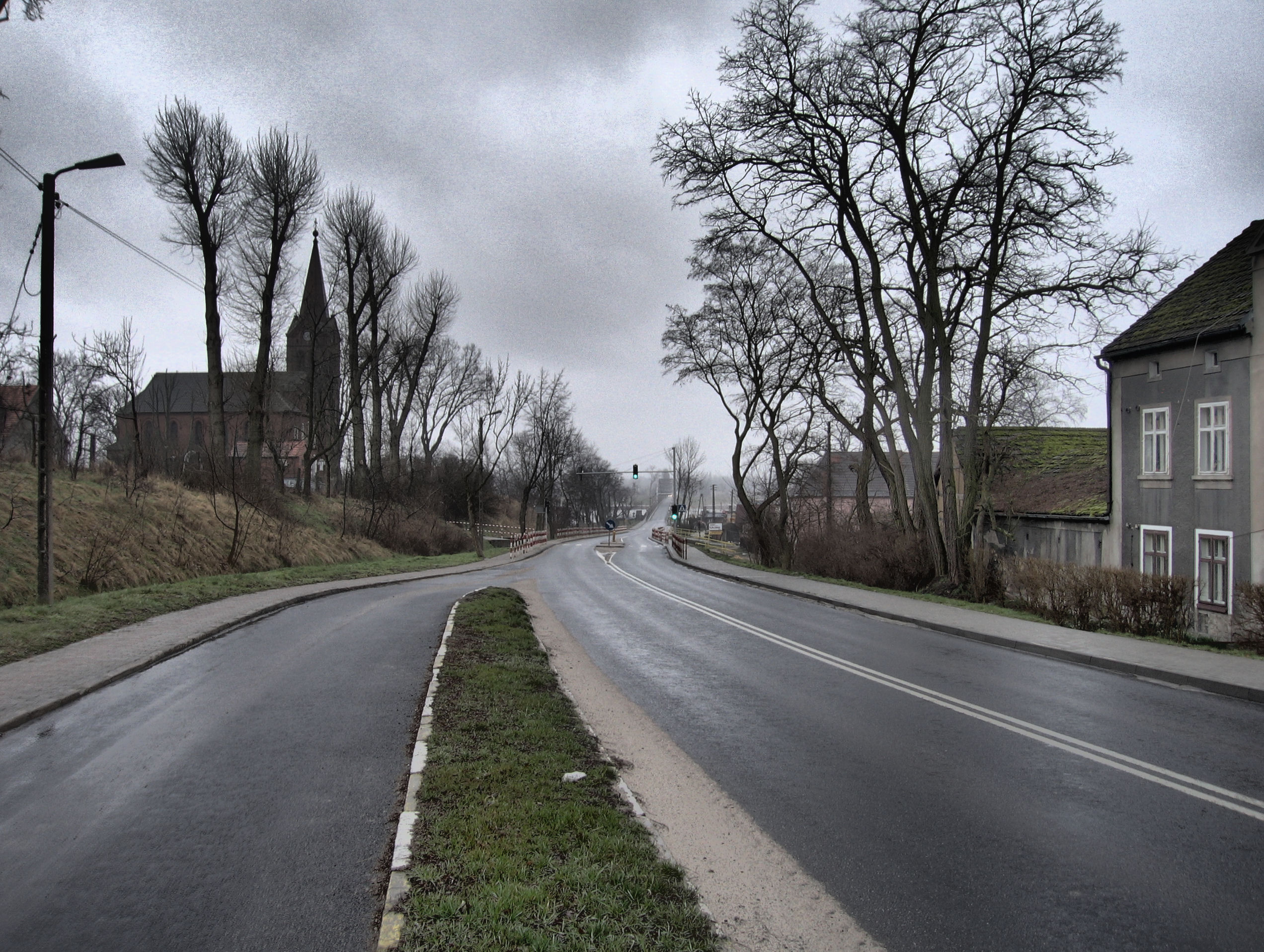 the village of Cigacice near Zielona Góra, Poland